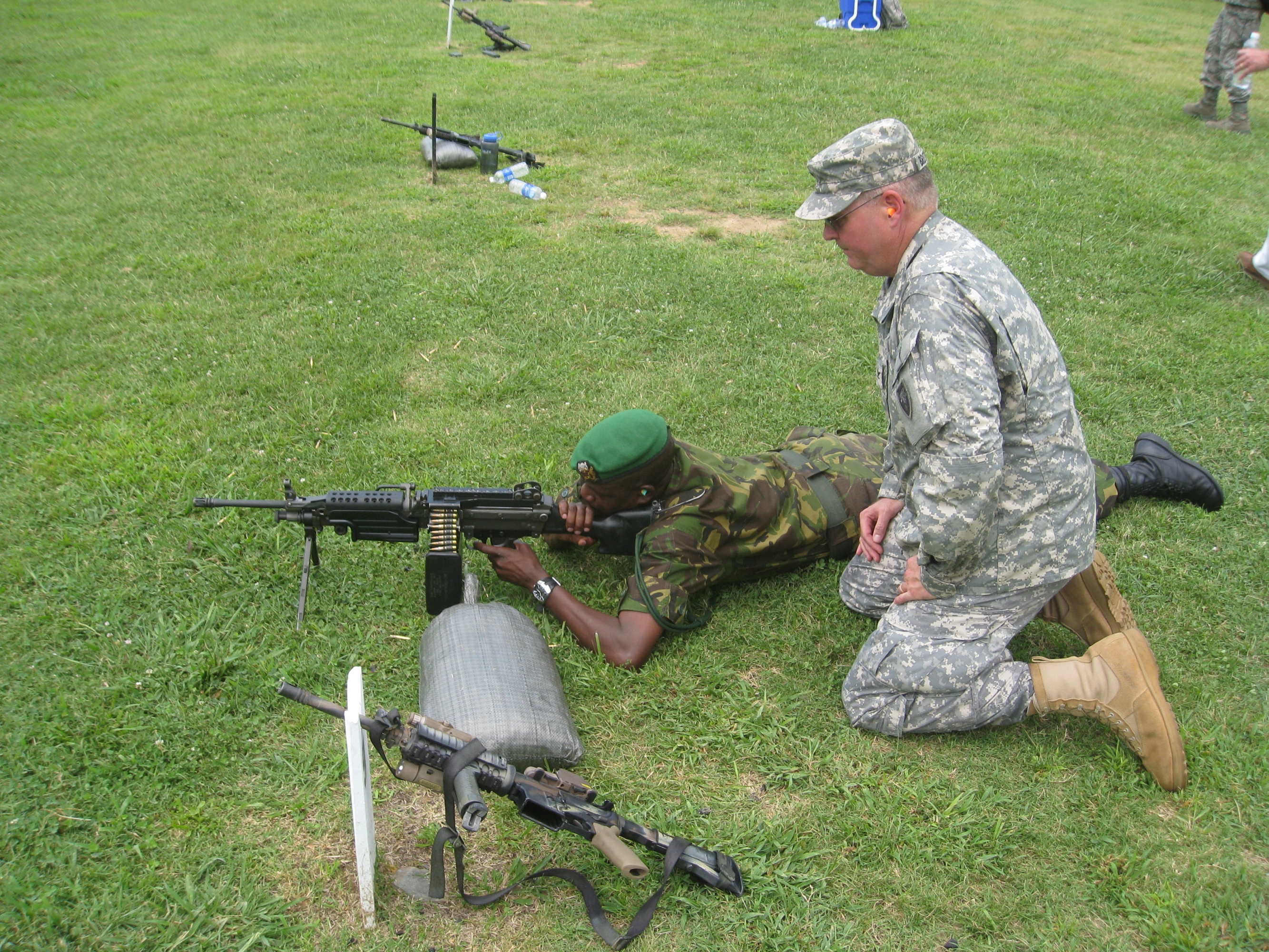 CAMP BUTNER, North Carolina - Botswana Defence Force (BDF) Brig. Gen. George Tlhalerwa fires a squad automatic weapon as Col. Jeffery Brotherton, North Carolina National Guard, observes, August 17, 2009 at the Camp Butner National Guard Training Center in North Carolina. The event, a State Partnership Program initiative, gave a delegation of officers and civilians from Botswana an opportunity to see U.S. training facilities and weapons ranges.